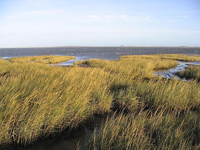 Lindisfarne National Nature Reserve Viewed from the old windpump area at Whitelee Letch at the southern edge of the reserve with Lindisfarne Castle in the distance right of centre. This mud flat area is an important waterfowl refuge.